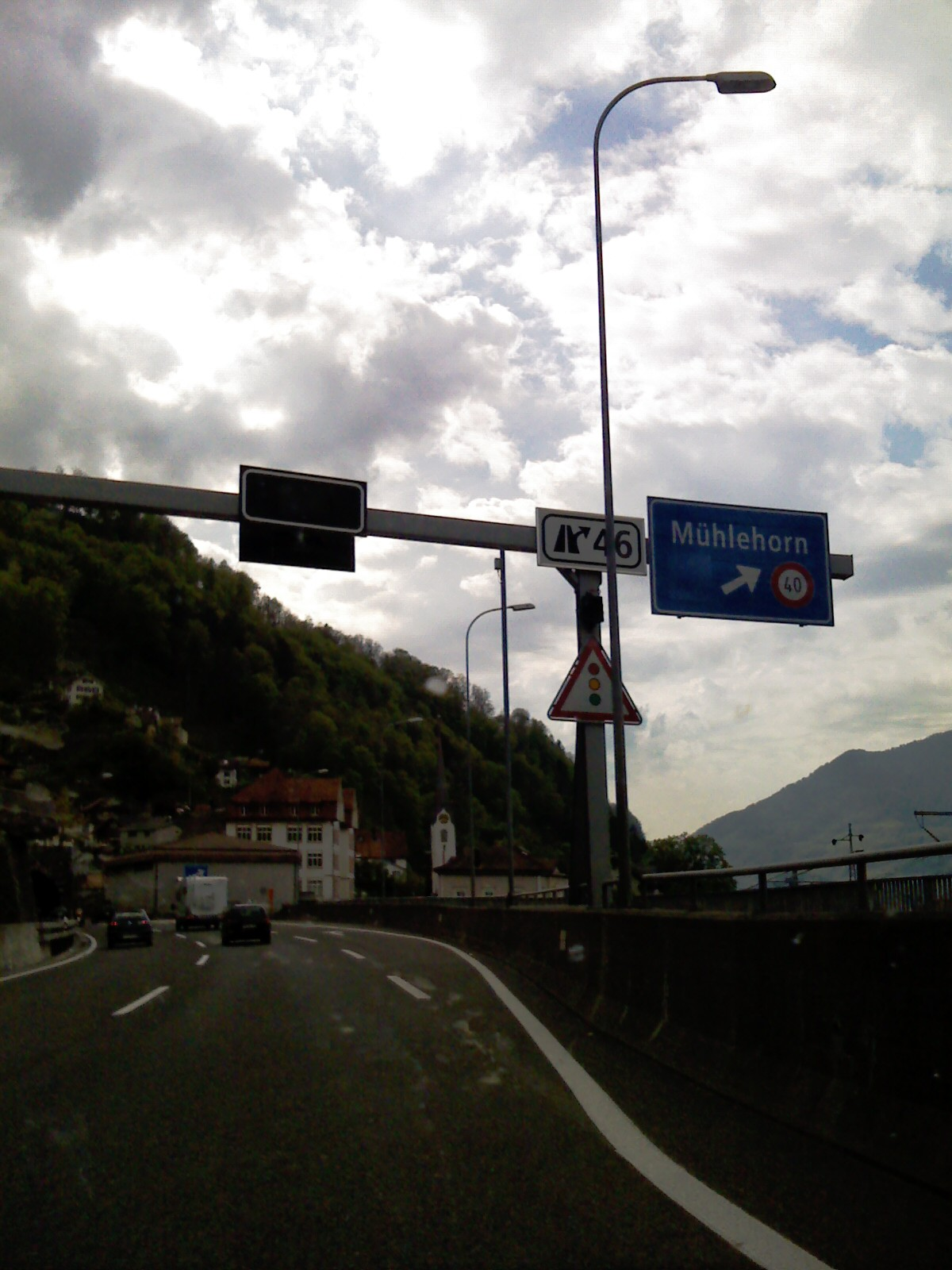 Highway exit Mühlehorn, canton of Glarus, SwitzerlandEsperanto: Aŭtovojelveturejo Mühlehorn, Kantono Glaruso, Svislando